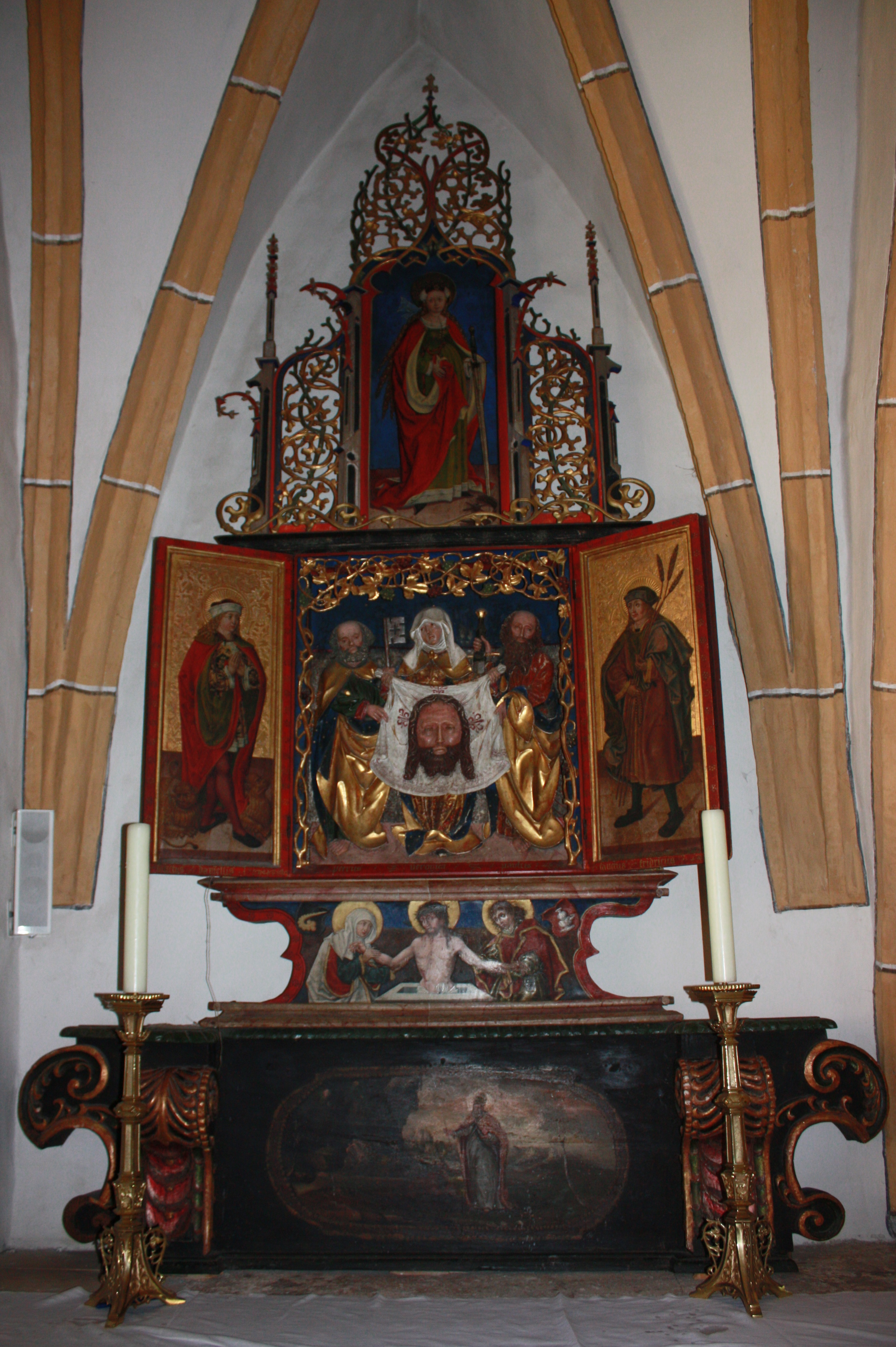 Parish church Saint Vinzenz - Veronica-altar Locality: Heiligenblut Community:Heiligenblut